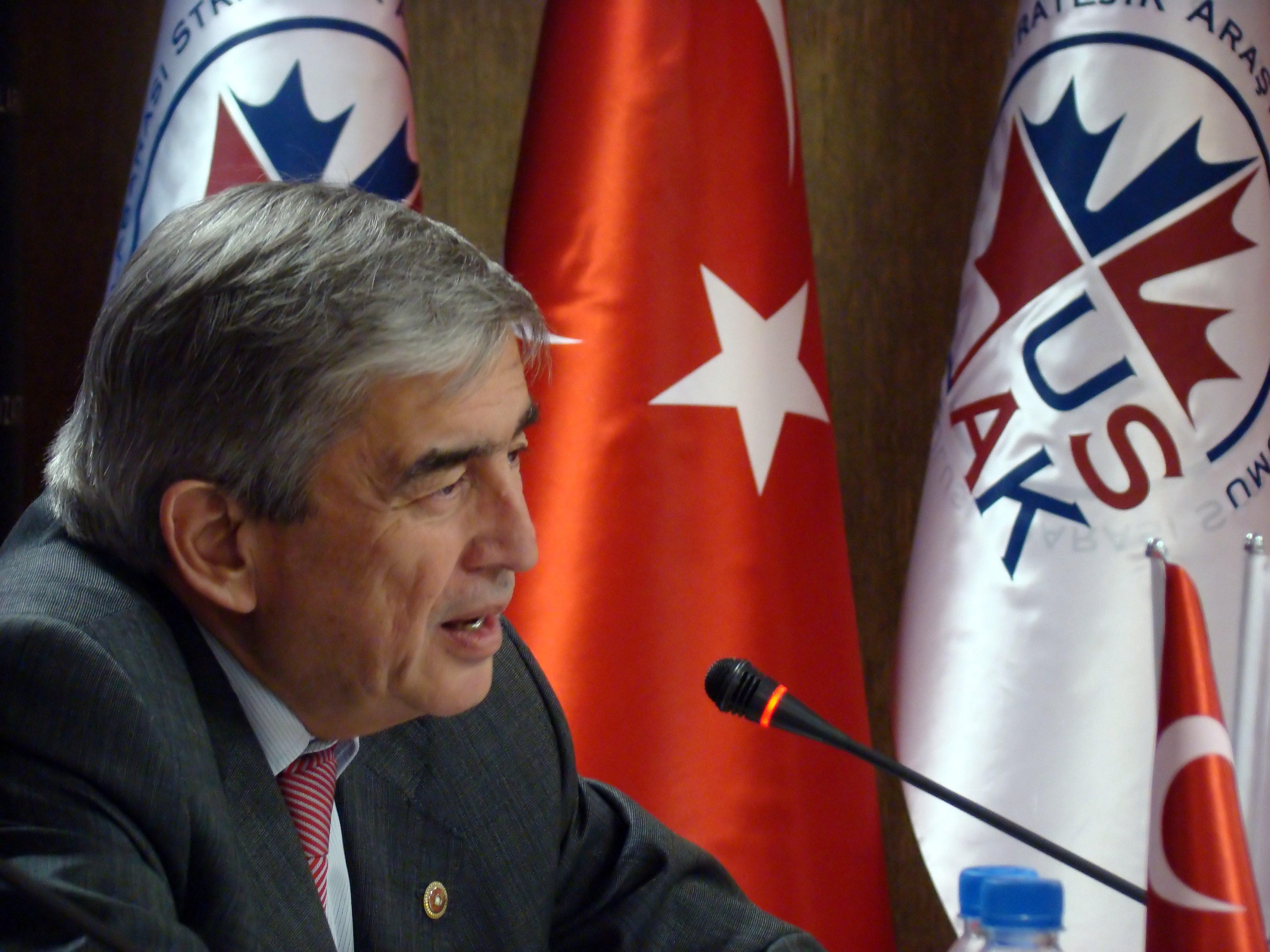 Onur Oymen, Deputy Chair of the CHP (Republican People's Party) gives a speech at the USAK, International Strategic Research Organization, Ankara-based Turkish think tank